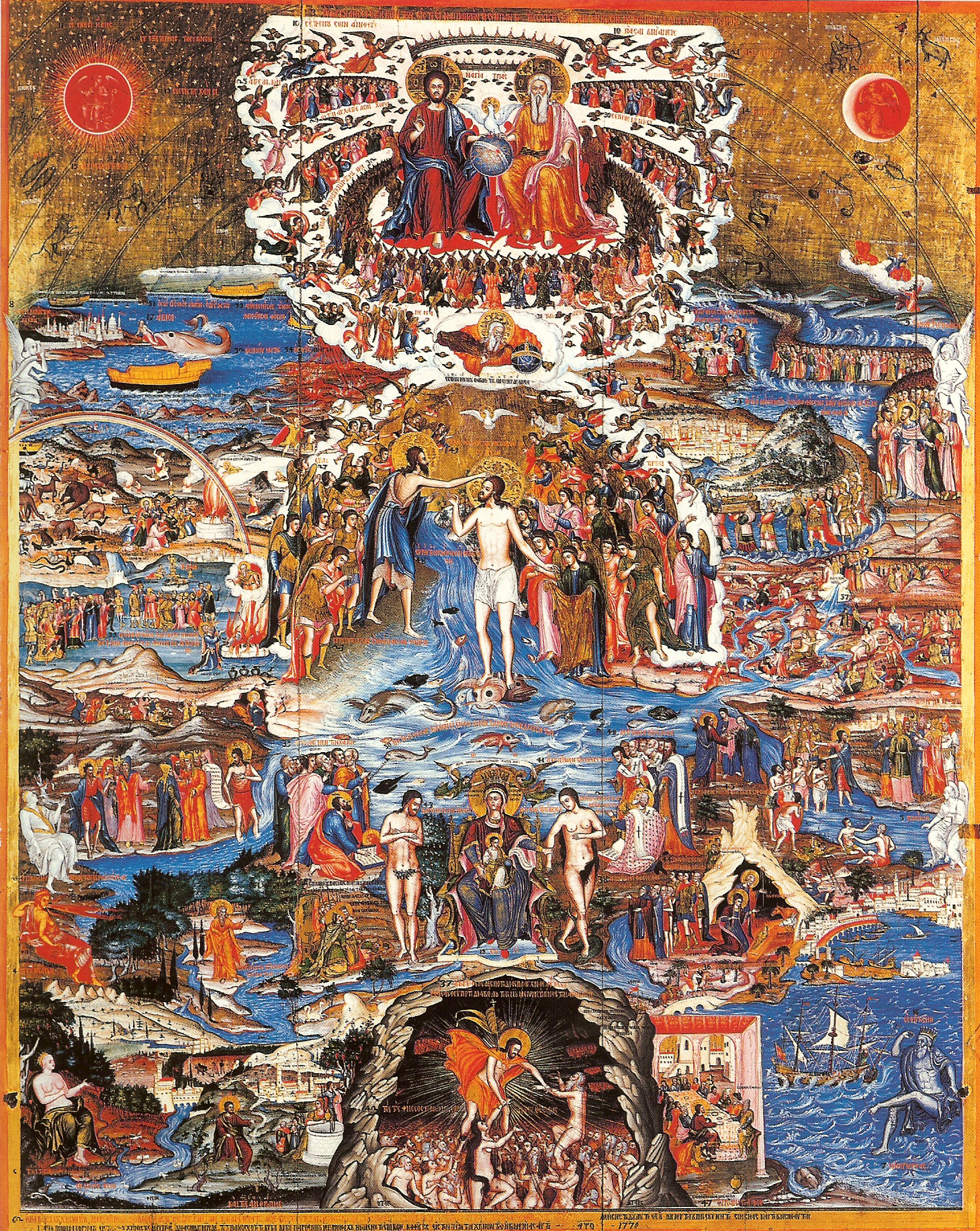 "Megas Ei Kyrie" fresco from Toplou monastery at Lasithi prefevture, Crete